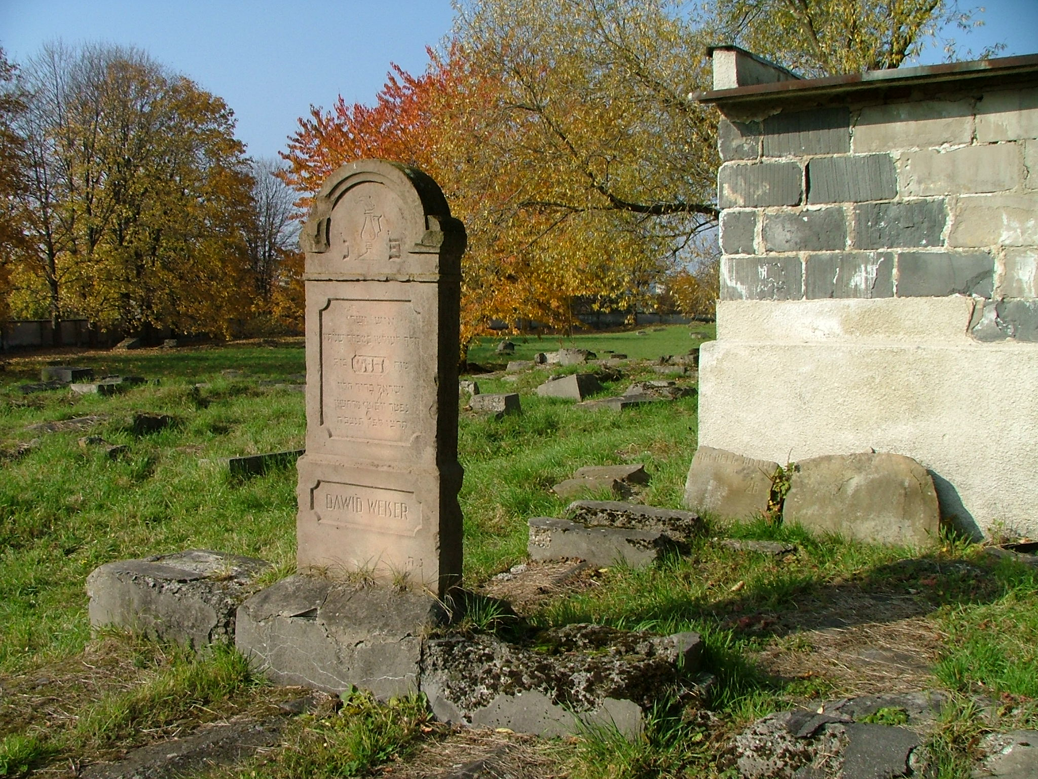 Jewish cemetery in Rzeszów